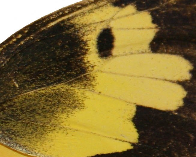 Southern Dogface, Zerene cesonia. Showing dogface pattern.